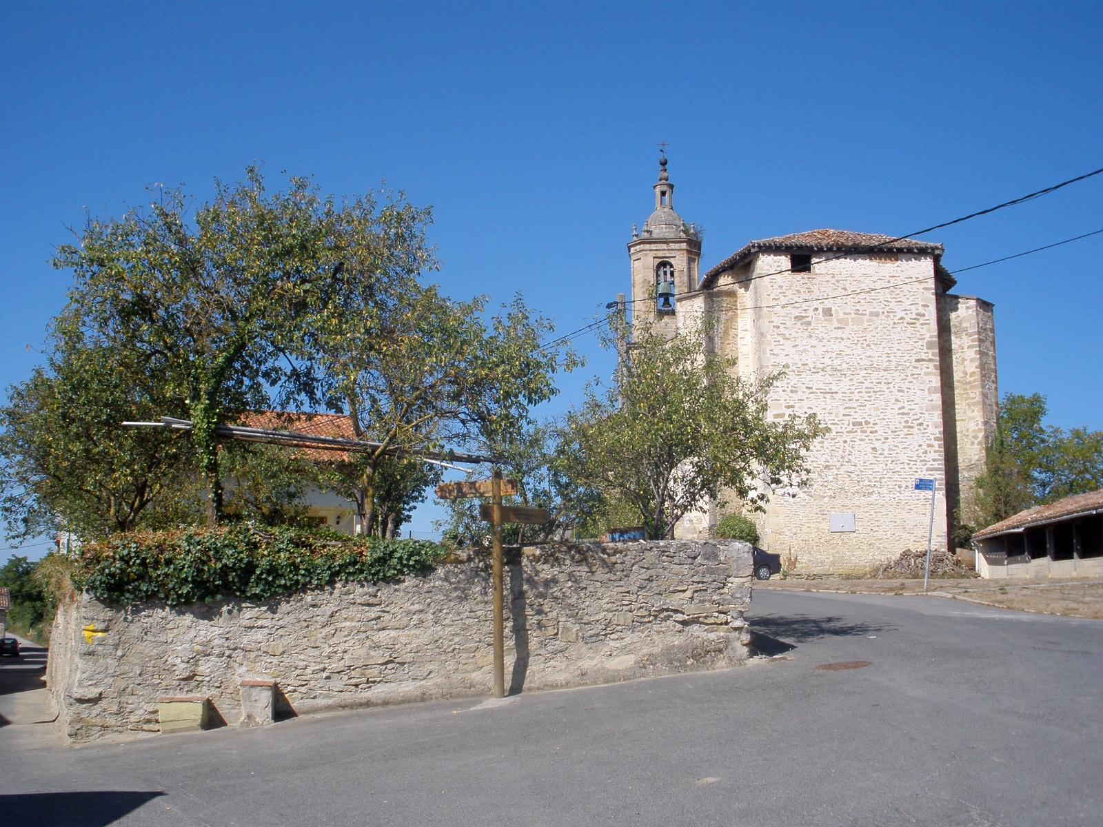 Iglesia de San Pedro, Elburgo (Álava, País Vasco, España)